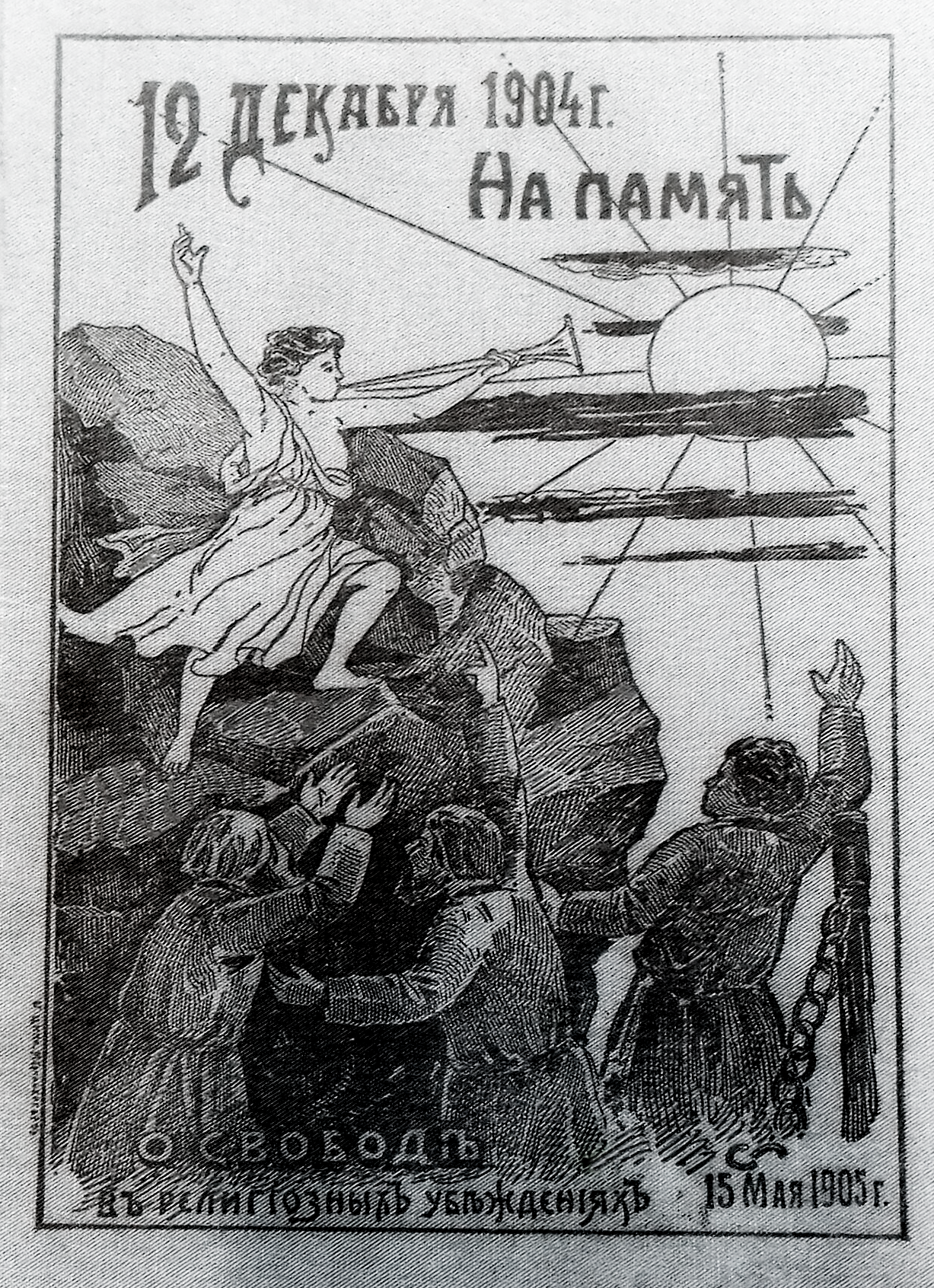 The picture on the cover of the photo album "Russian Baptists", published in 1905. The date indicated in the figure is December 12, 1904 - the date of the Imperial Supreme decree to the Governing Senate "On the predestinations for the improvement of the state order", which contains an instruction to consolidate "tolerance in matters of faith". As a follow-up to this decree, in 1905 another more famous "Decree On the strengthening of the principles of religious tolerance"was issued. As a result of the persecution of the non-Orthodox in the Russian Empire weakened for several years.